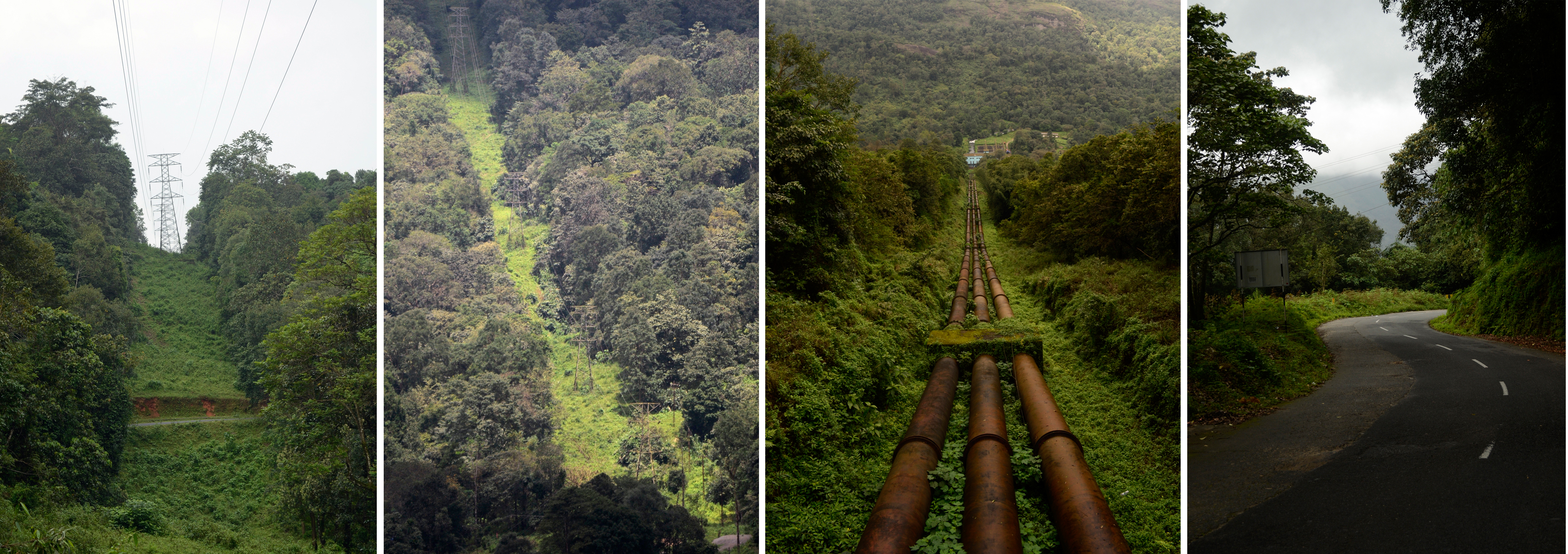 Collage of different types of linear intrusions from Western Ghats forest region.